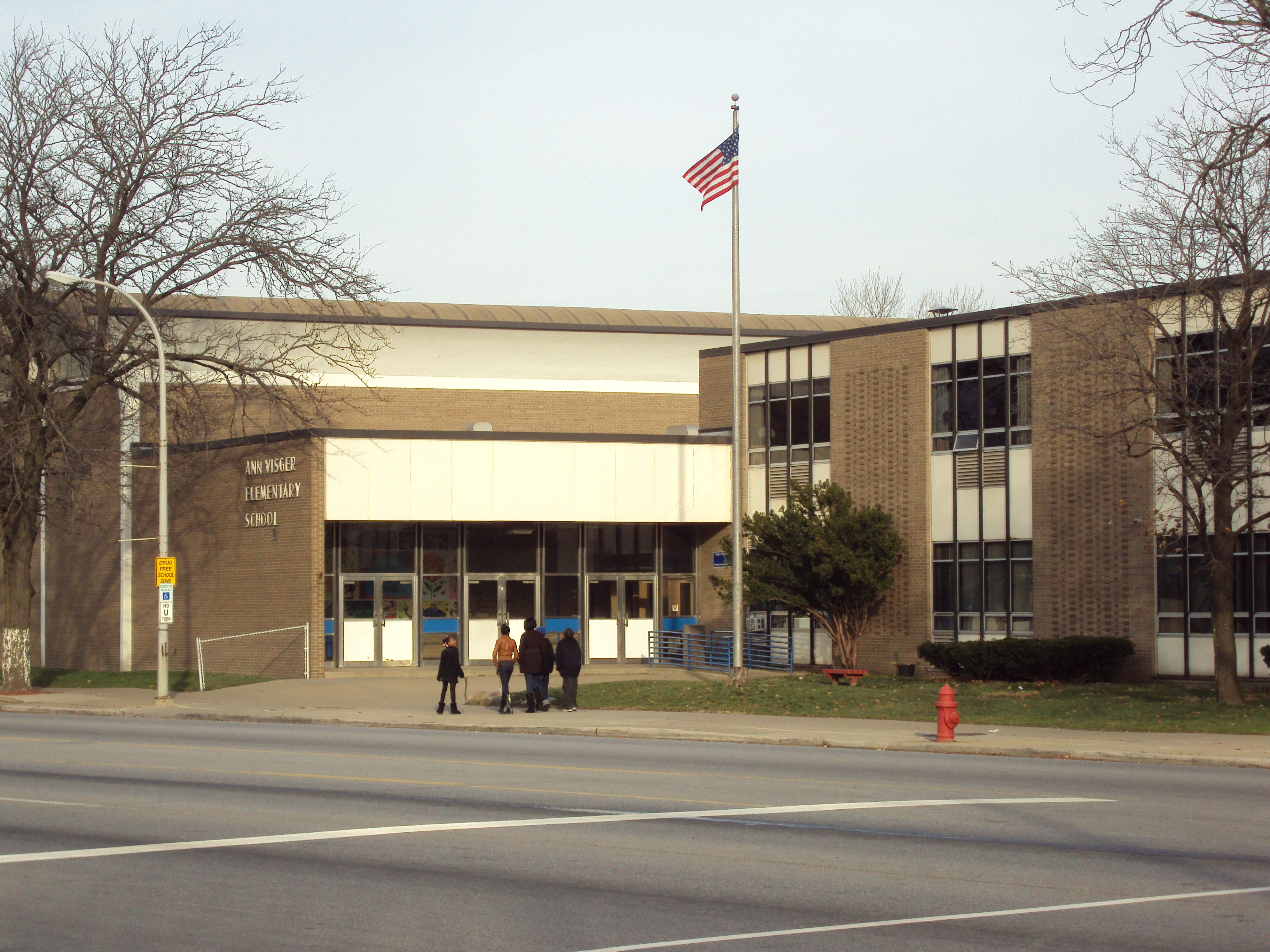 Ann Visger Elementary School (Michigan)